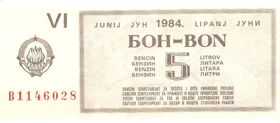 Yugoslav fuel voucher for 5 litres, issued for june 1984.